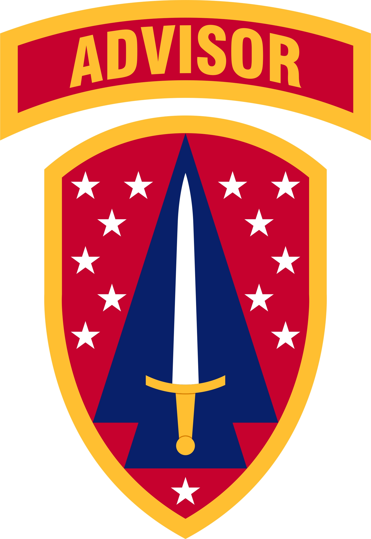 U.S. Army's Security Force Assistance Brigades shoulder sleeve insignia (SSI)SSI design: The shoulder sleeve is a shield with a sword, spearhead and stars. The Tab will have the word "ADVISOR" on it. The advisor tab is a unit tab, not a skill tab. The specialized advisor mission is the reason for the tab. The shape of the shield and sword are modeled after the Military Assistance Command-Vietnam (MAC-V) insignia to convey a similar mission and heritage. The arrowhead shape alludes to leadership and direction, as well as rapid deployability. The sword conveys force, whether it be offense, defense or assistance. The thirteen stars reflect the "Glory" crest in the coat of arms of the United and symbolize the thirteen original states and the Army Mission patch worn by Military Assistance Advisory Groups. The colors red and blue denote security and authority. The color white highlights the uniqueness of the brigades and their specialized missions. The color gold exemplifies excellence and expertise.